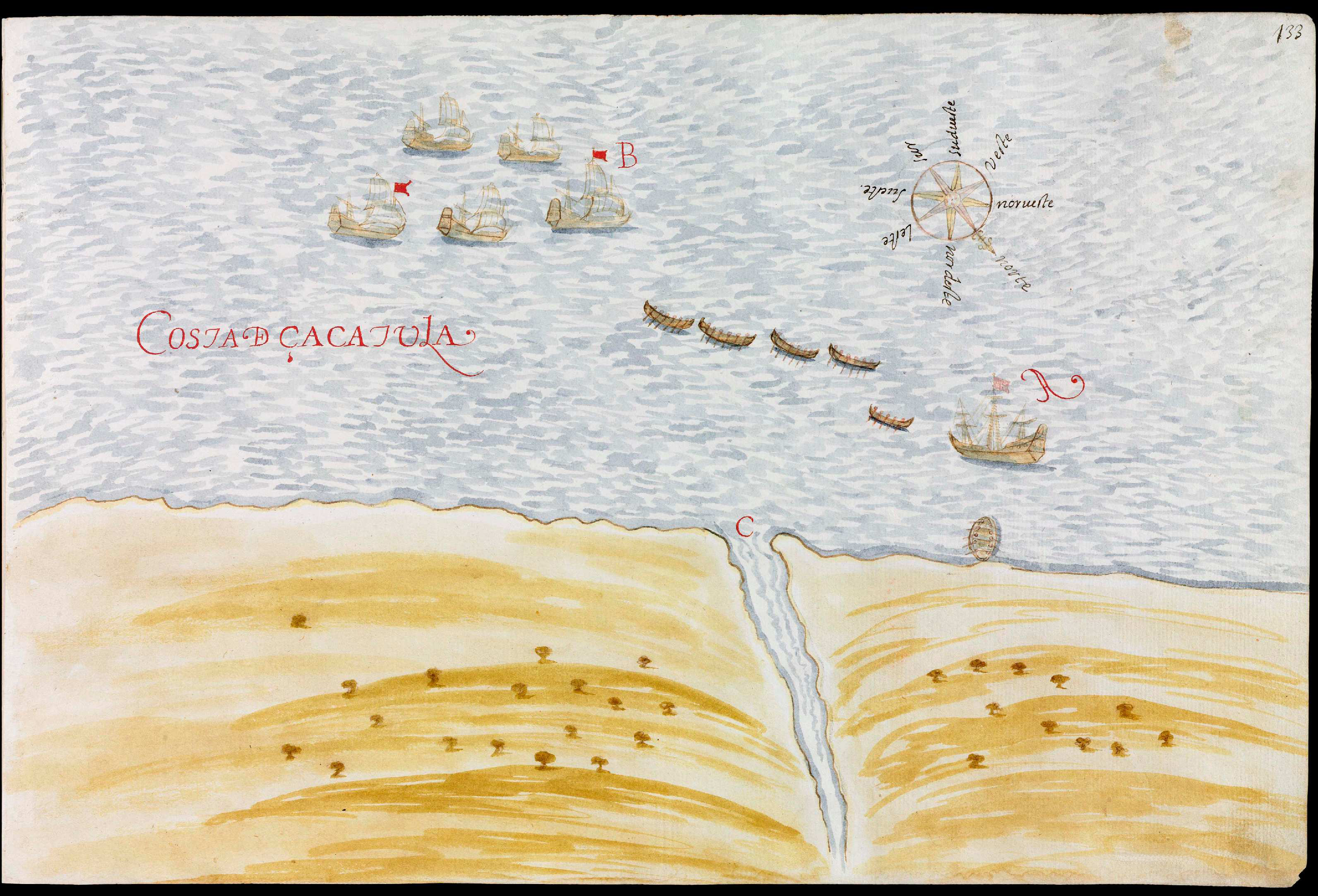 Map that shows the capture of Nicolás de Cardona's vessel by a Dutch corsair fleet commanded by Joris van Spilbergen, in front of the coast of Zacatula (nowadays in the municipality of La Unión, Guerrero state, Mexico). Cardona escaped ashore aboard a boat. Page 133 of the Descripciones geográphicas e hydrográphicas de muchas tierras y mares del Norte y Sur en las Indias, en especial del descubrimiento del Reino de la California (Geographic and hydrographic descriptions of many northern and southern lands and seas in the Indies, specifically the discovery of the kingdom of California), written by captain Nicolás de Cardona after his expedition of 1614. The legend on page 132 says: A. The vessel of the discovery expedition and its boat. B. The enemy's fleet. C. The river of Zacatula.